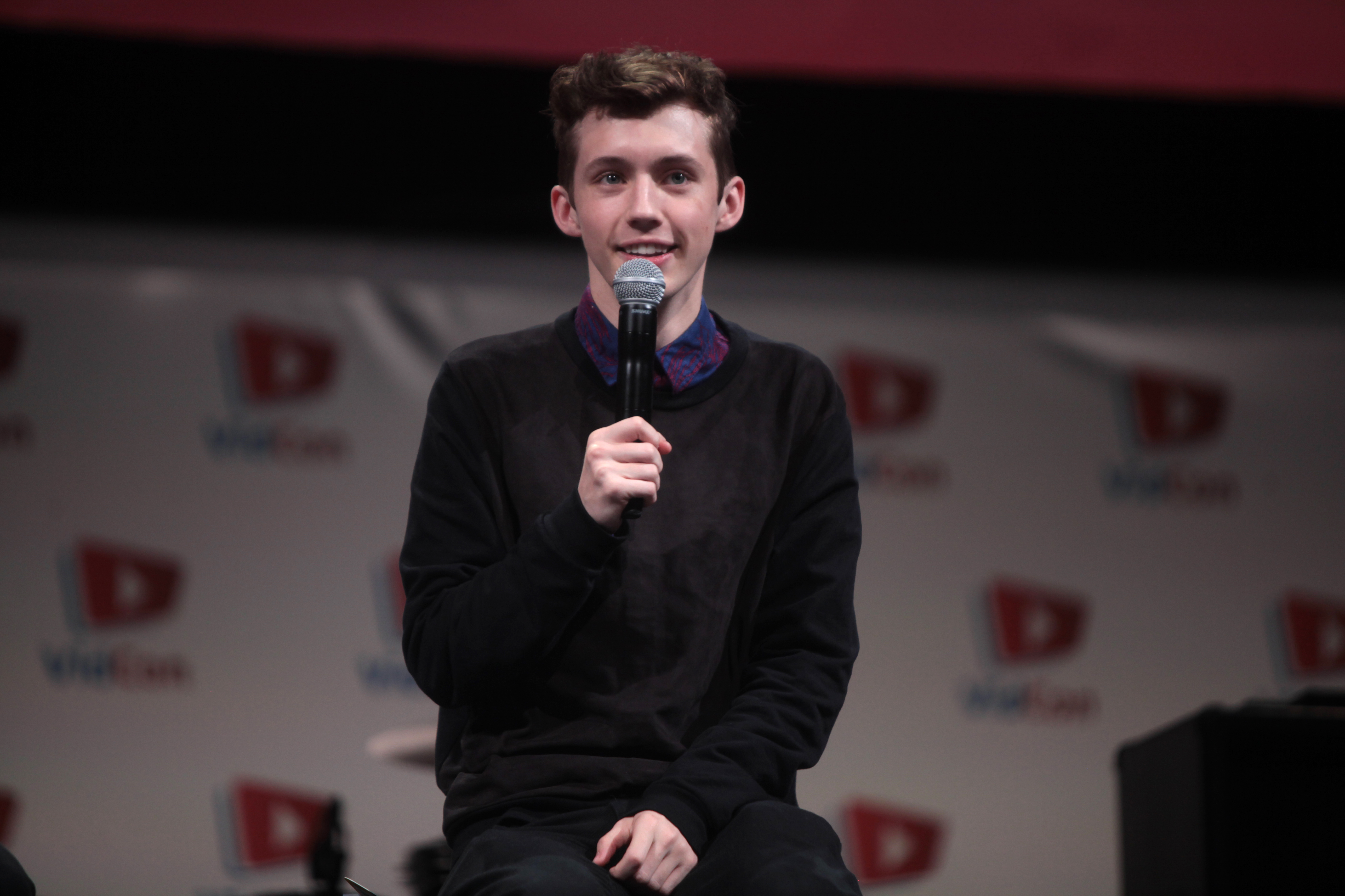 Troye Sivan speaking at the 2014 VidCon at the Anaheim Convention Center in Anaheim, California.